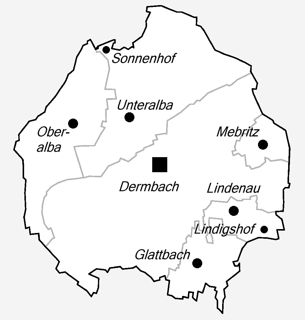 District-Maps of Dermbach.